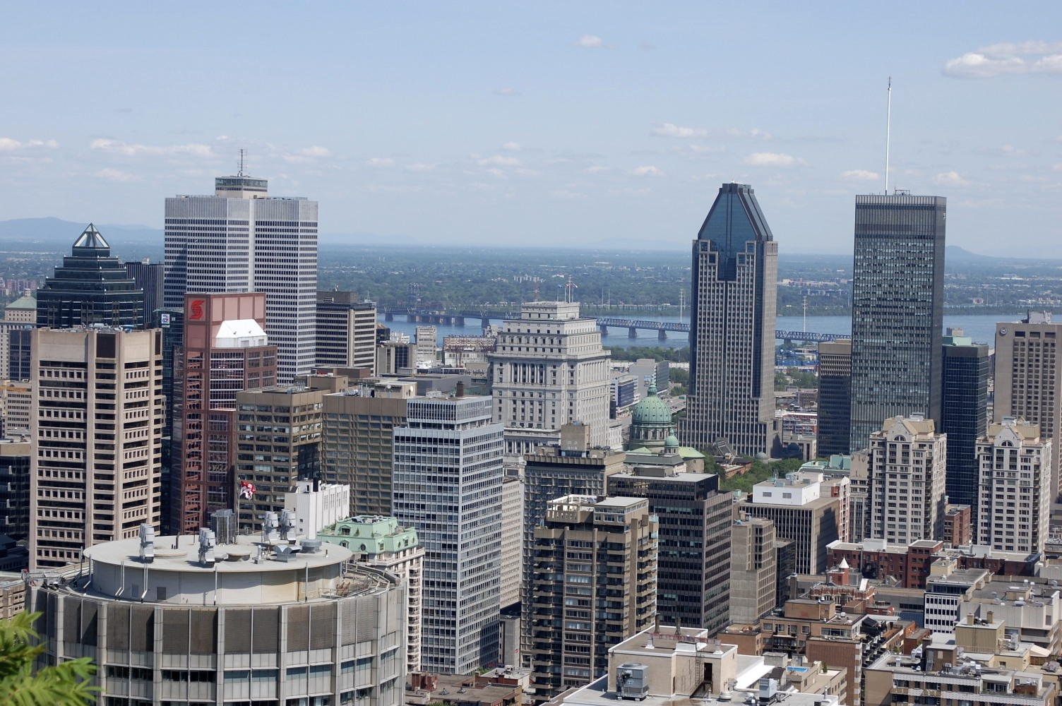 Skyling of Montréal from Mont-Royal